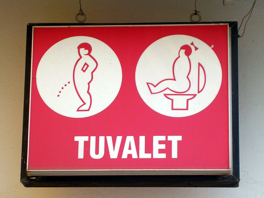 Toilet sign located near Pamukkale, Turkey.